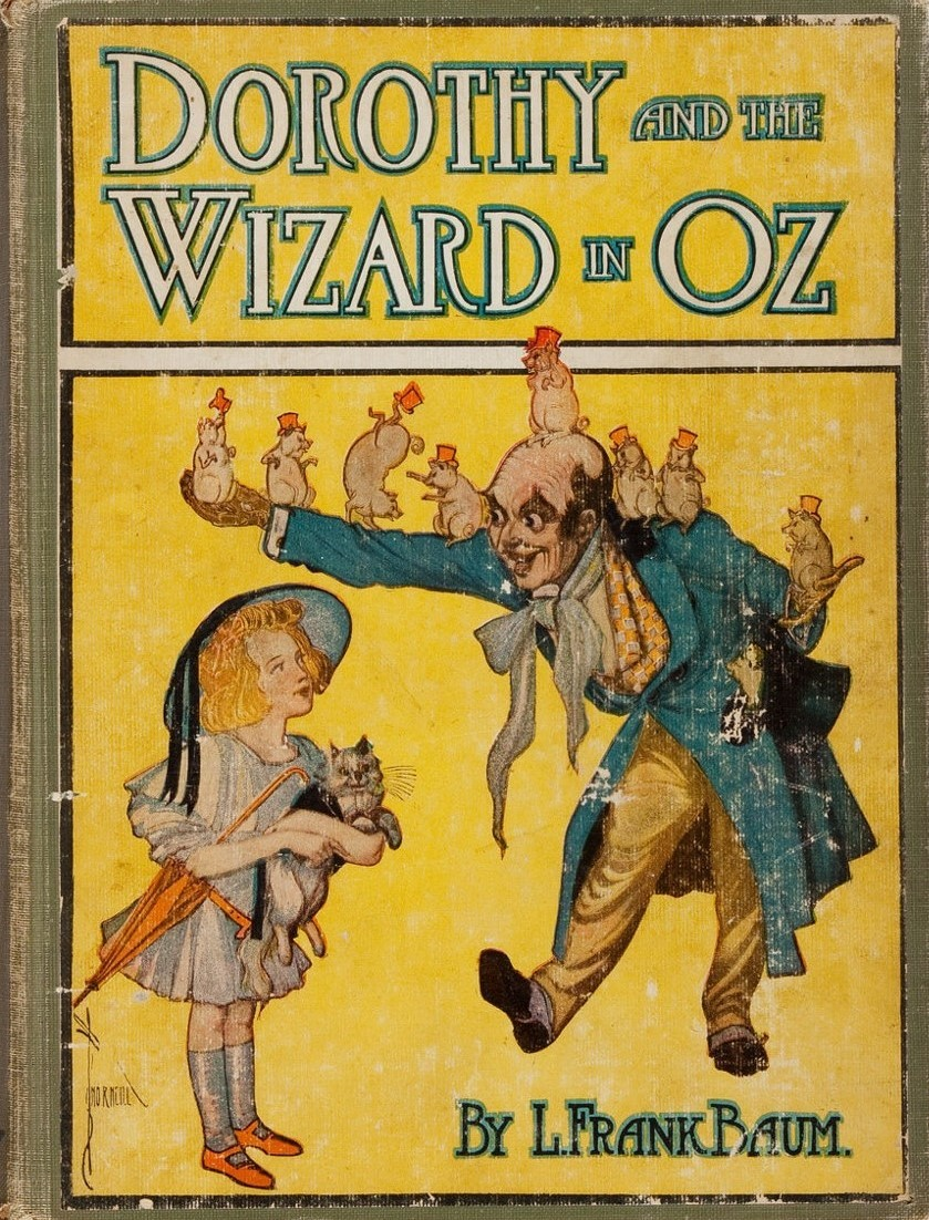 The original 1908 cover to Dorothy and the Wizard in Oz by L. Frank Baum. Designed by artist John R. Neill, reproduced for a modern facsimile edition. Now out of copyright.